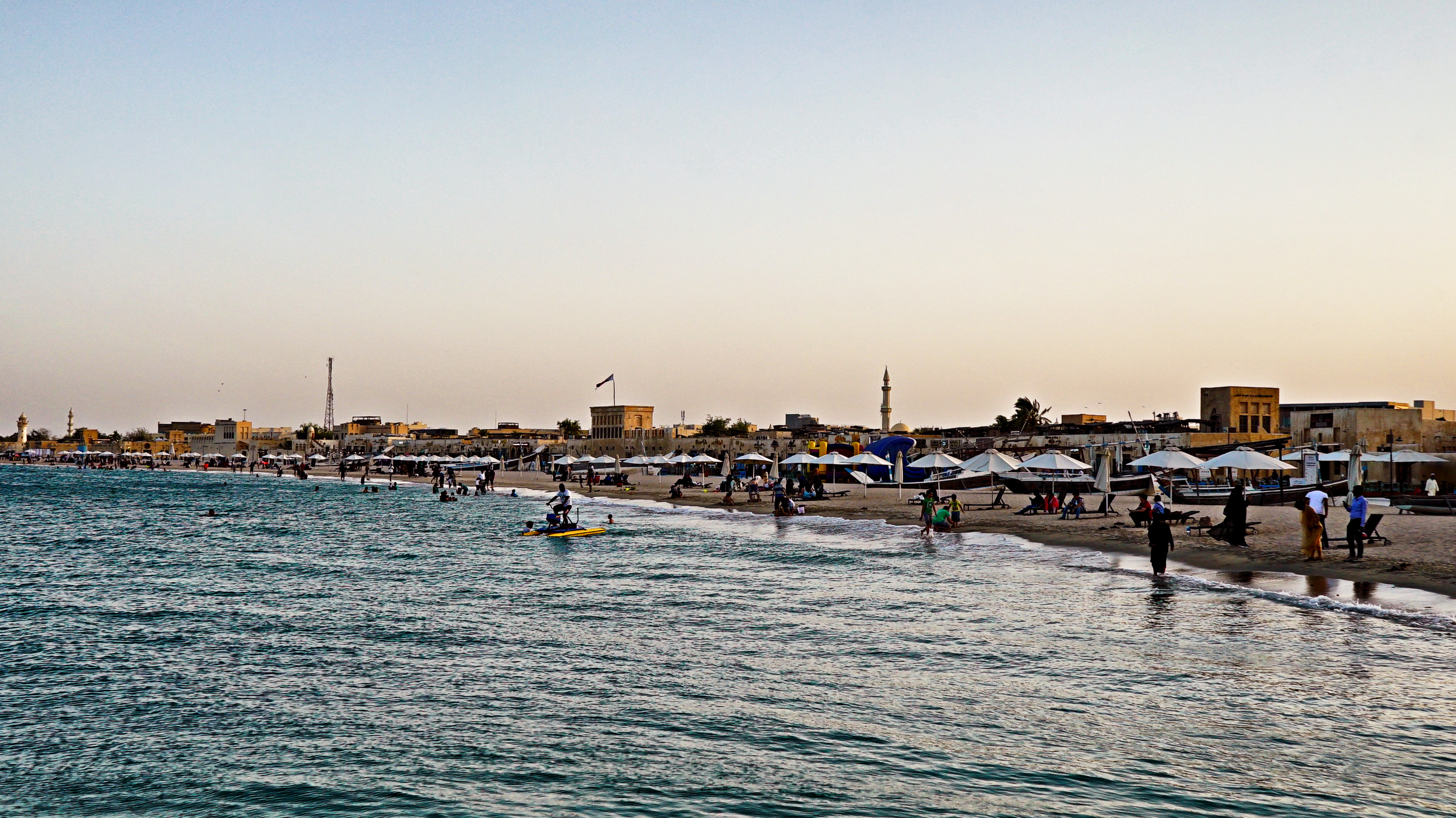 The beach at Al Wakrah Souq in Qatar.